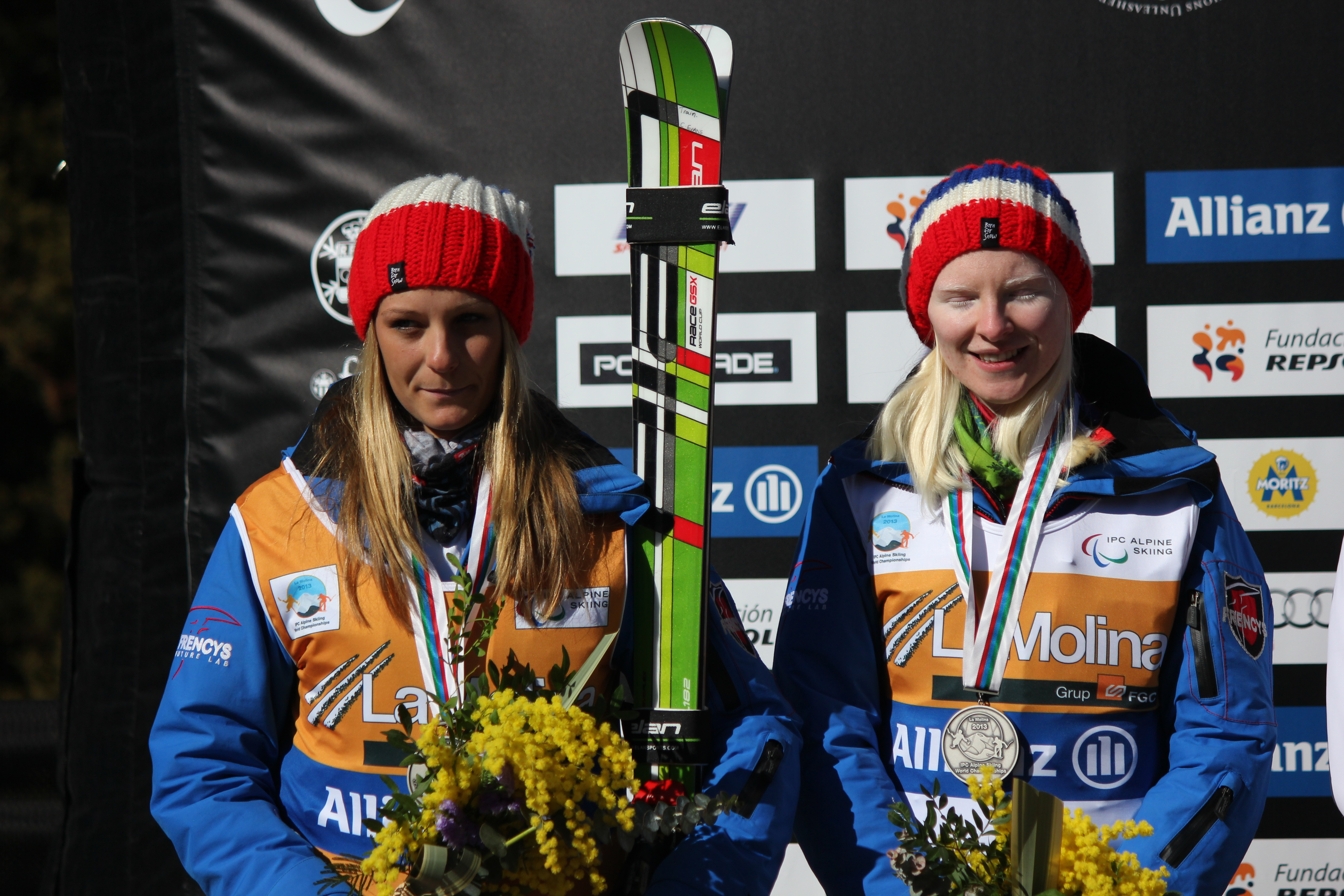 Kelly Gallagher and guide Charlotte Evans, silver medallists of Super G visually impaired class at 2013 IPC Alpine World Championships in La Molina Spain.